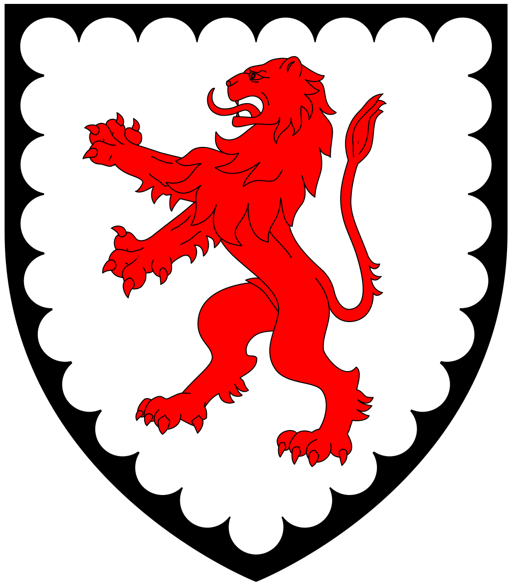 Arms of Champneys of Yarnscombe, Devon: Argent, a lion rampant gules a bordure engraioled sable (Vivian, Lt.Col. J.L., (Ed.) The Visitations of the County of Devon: Comprising the Heralds' Visitations of 1531, 1564 & 1620, Exeter, 1895, p.166) Pole however gives a bordure engrailed gules (Pole, Sir William (d.1635), Collections Towards a Description of the County of Devon, Sir John-William de la Pole (ed.), London, 1791, p.477)